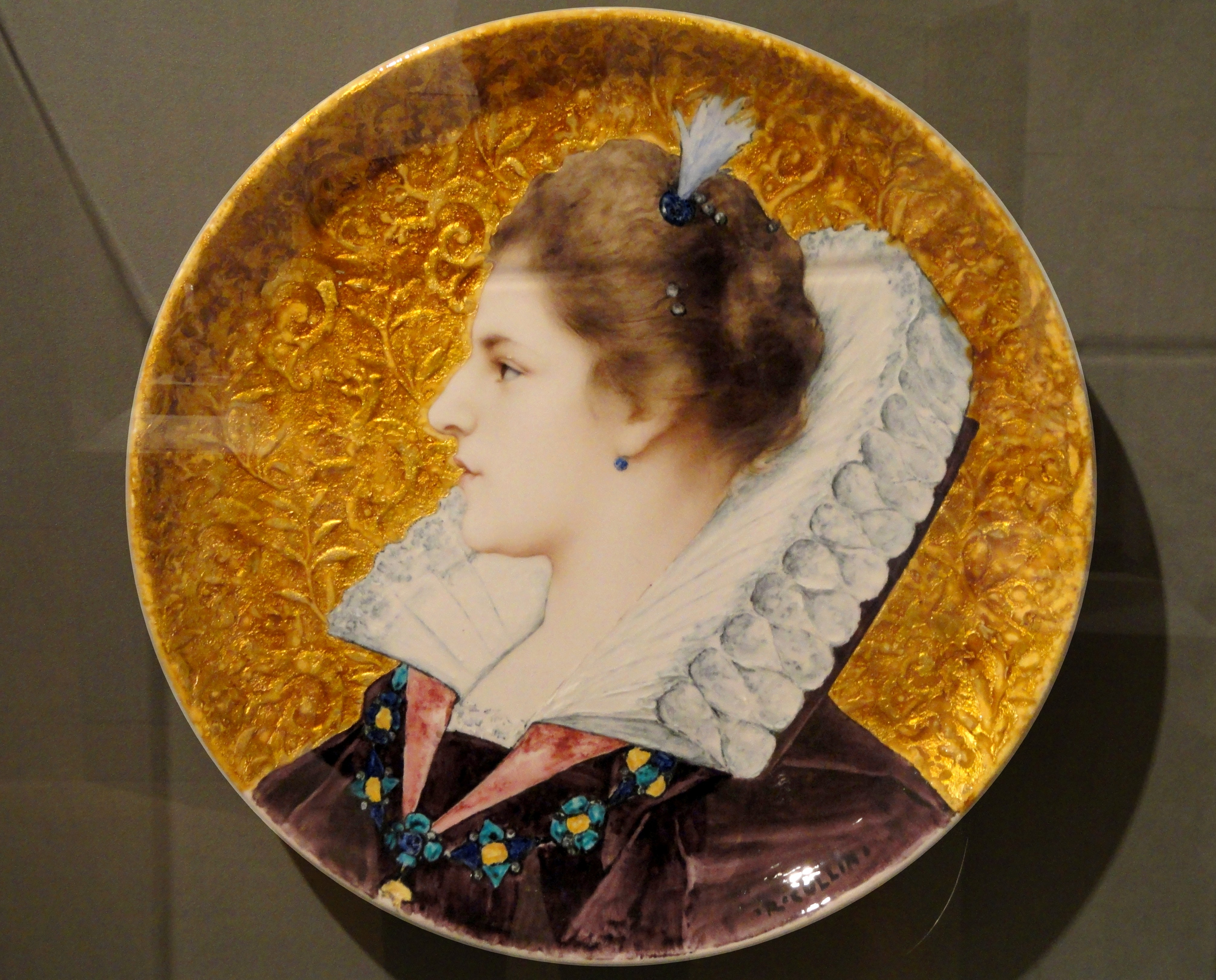 Plate painted by Raphaël Collin, Joseph Théodore Deck's workshop, circa 1880. Exhibit in the Indianapolis Museum of Art, Indianapolis, Indiana, USA.